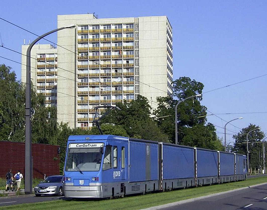 The Volkswagen CarGoTram of the Dresdner Verkehrsbetriebe delivers parts to the VW Transparent Factory in Dresden.